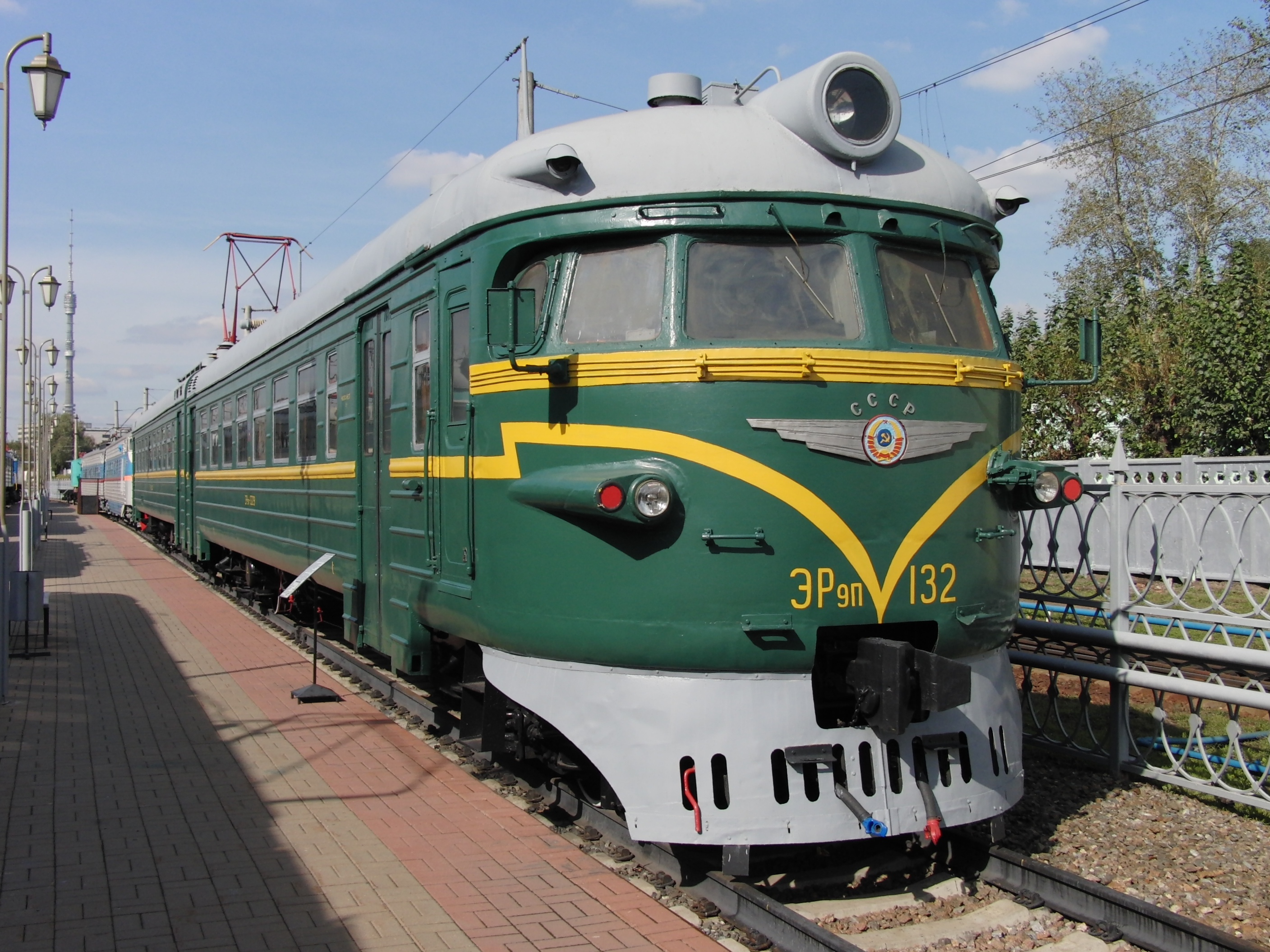 ER9P (ЭР9П) 132 electric train (elektrichka)